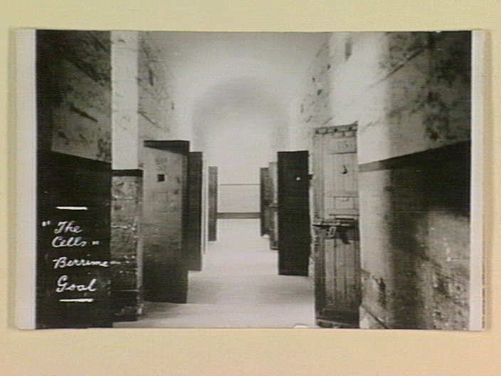 "The Cells", Berrima Gaol